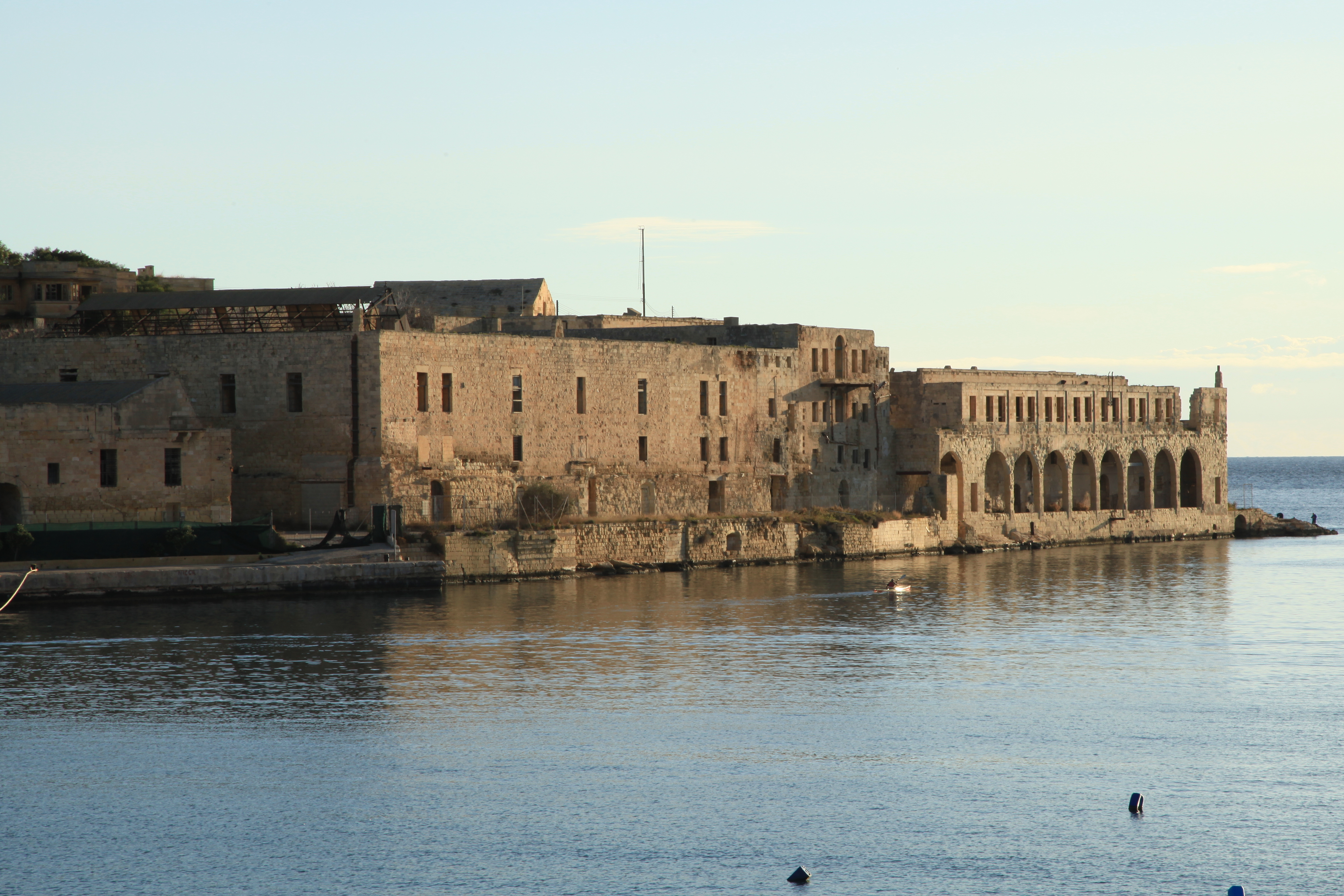 View from Ix-Xatt Ta' Xbiex in Ta' Xbiex to the lazzaretto of Manoel Island in Gżira, Malta